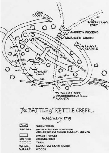 A 1926 map reconstructing the presumed tactical movements in the 1779 Battle of Kettle Creek.